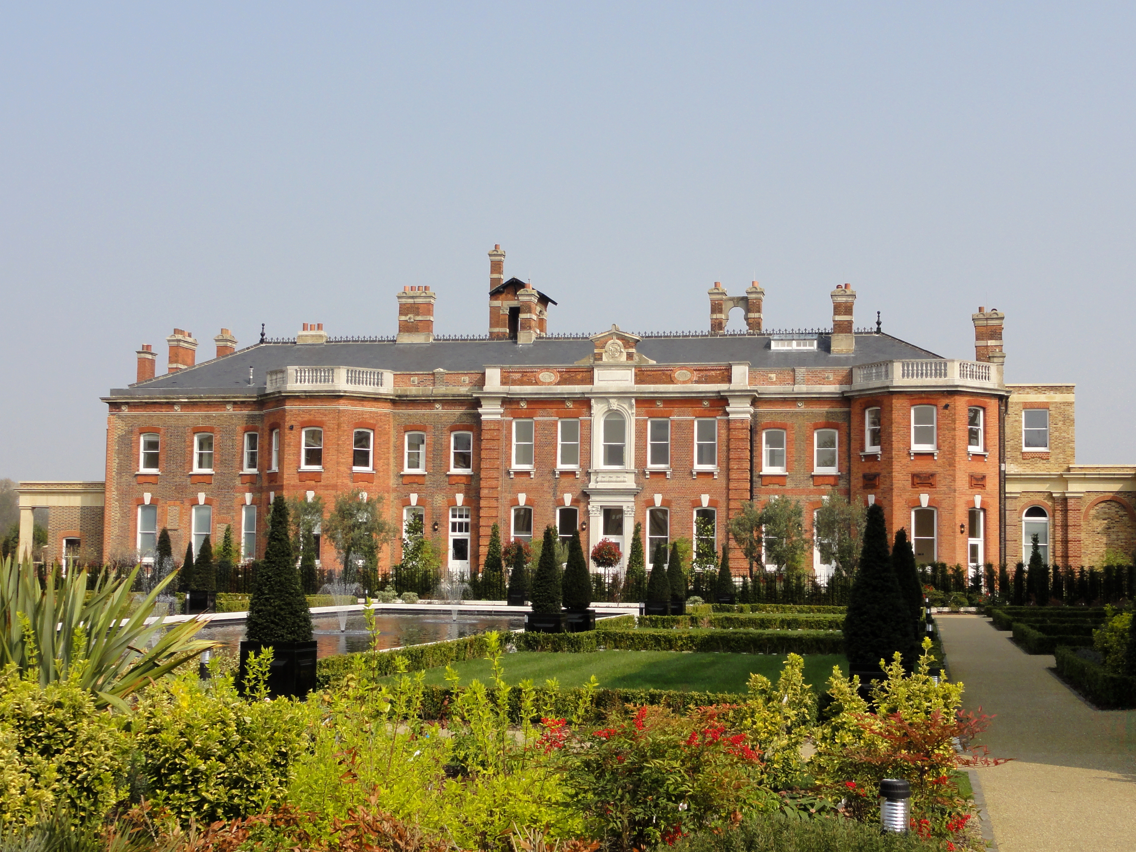 The English Gardens of Gordon House in Isleworth